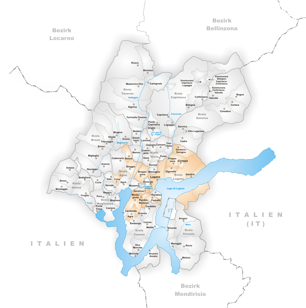 Municipalities of District Lugano until 2003